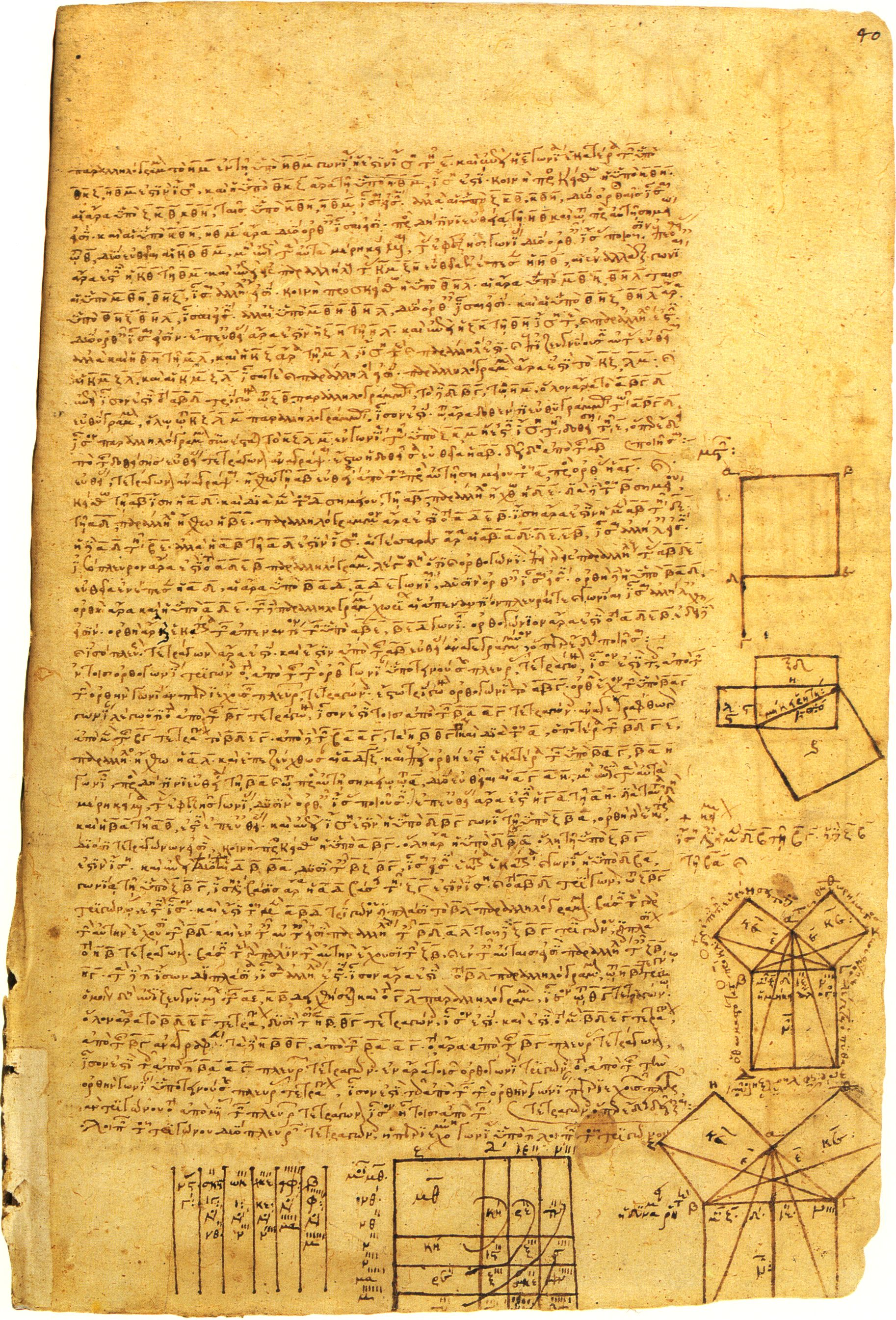 The Pythagorean theorem in a medieval manuscript. Biblioteca Apostolica Vaticana, Vaticanus Palatinus graecus 95, fol. 40r.